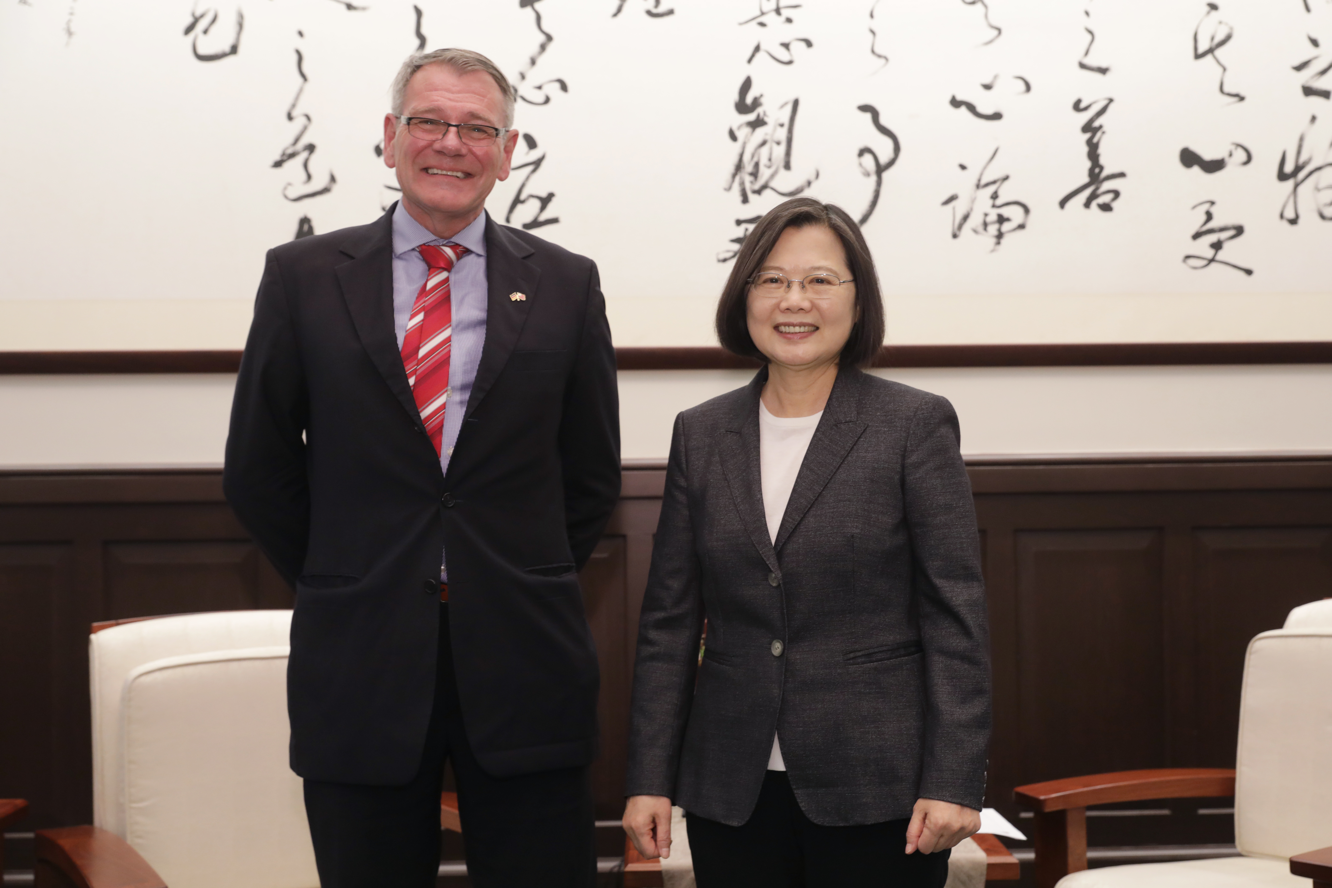 Official Photo by Simon Liu / Office of the President